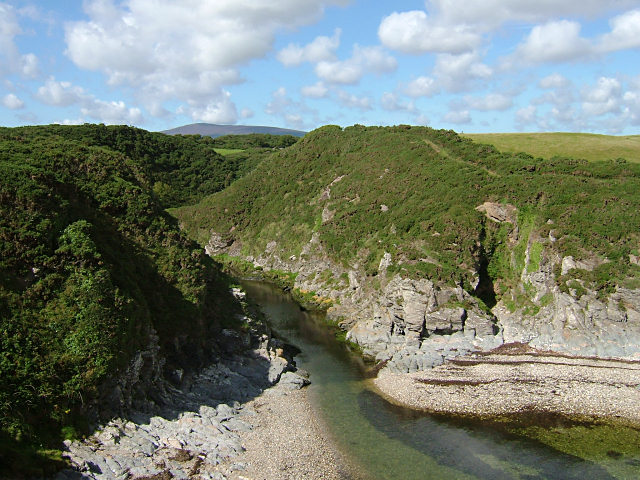 Santon Gorge - Isle of Man. This is the point at which the Santon Burn enters the sea, through this small but steeply sided gorge.